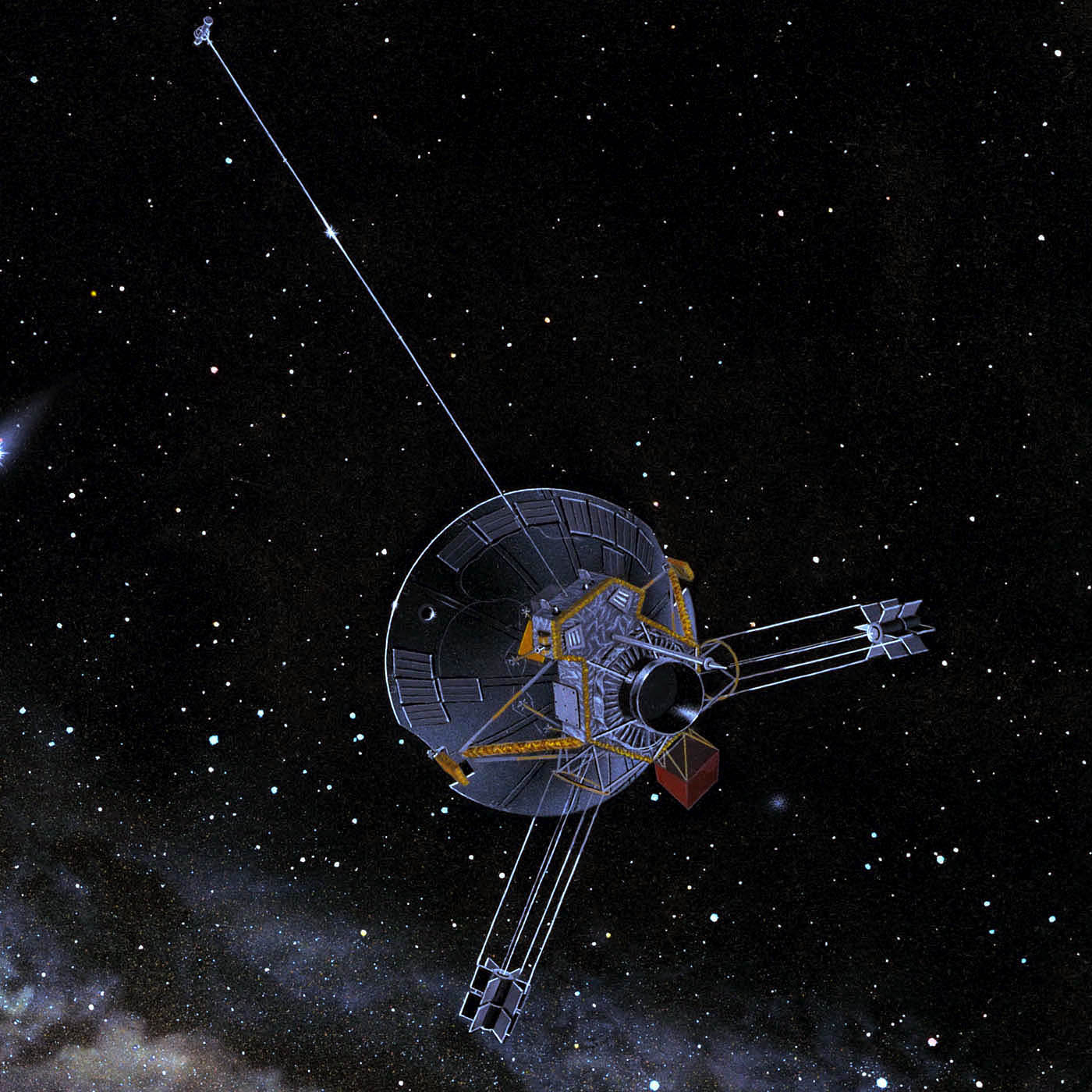 Pioneer 10 spacecraft in the outer Solar System